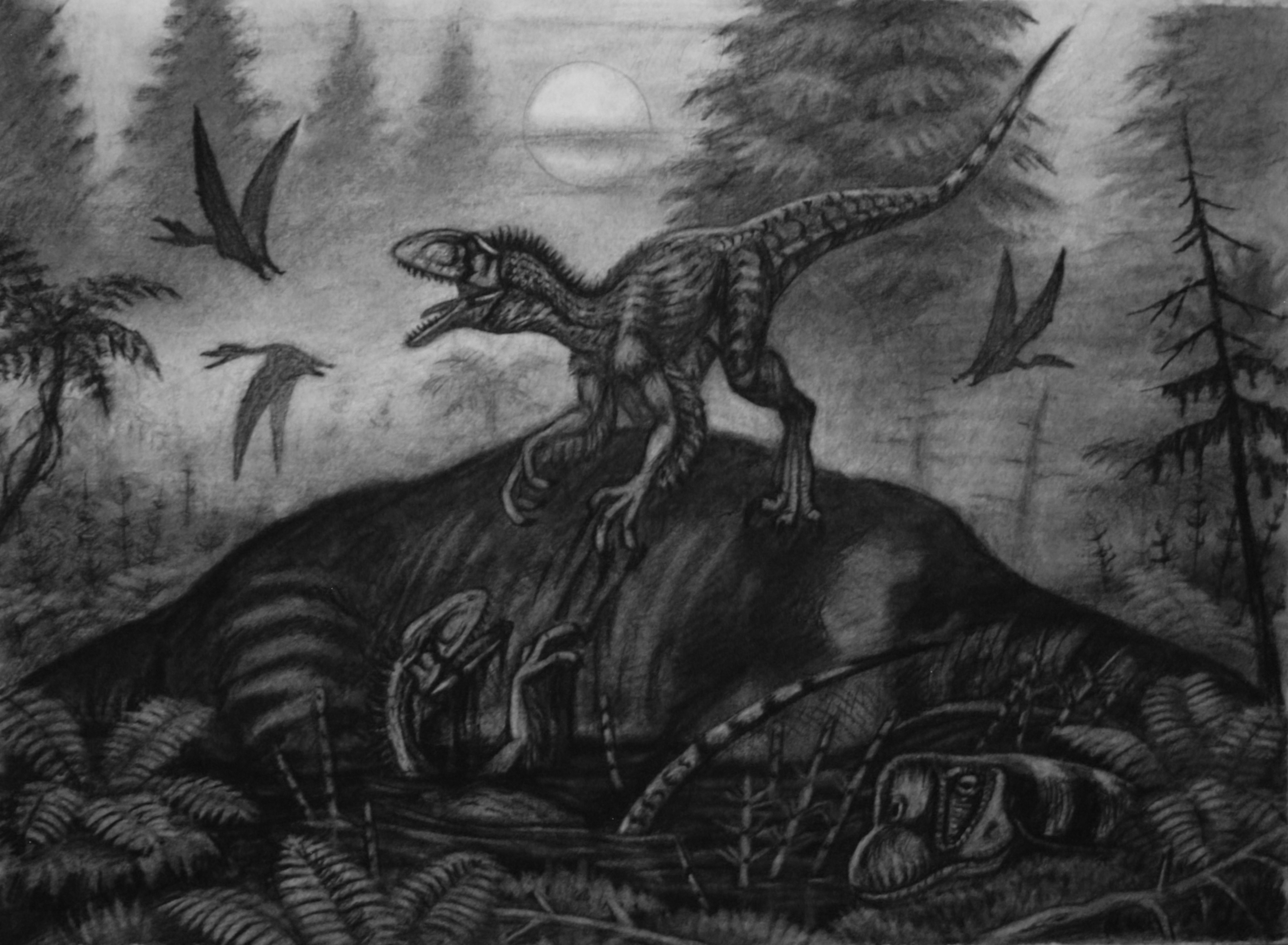 Raptor Red loses her mate. Based on the the novel by Robert Bakker.